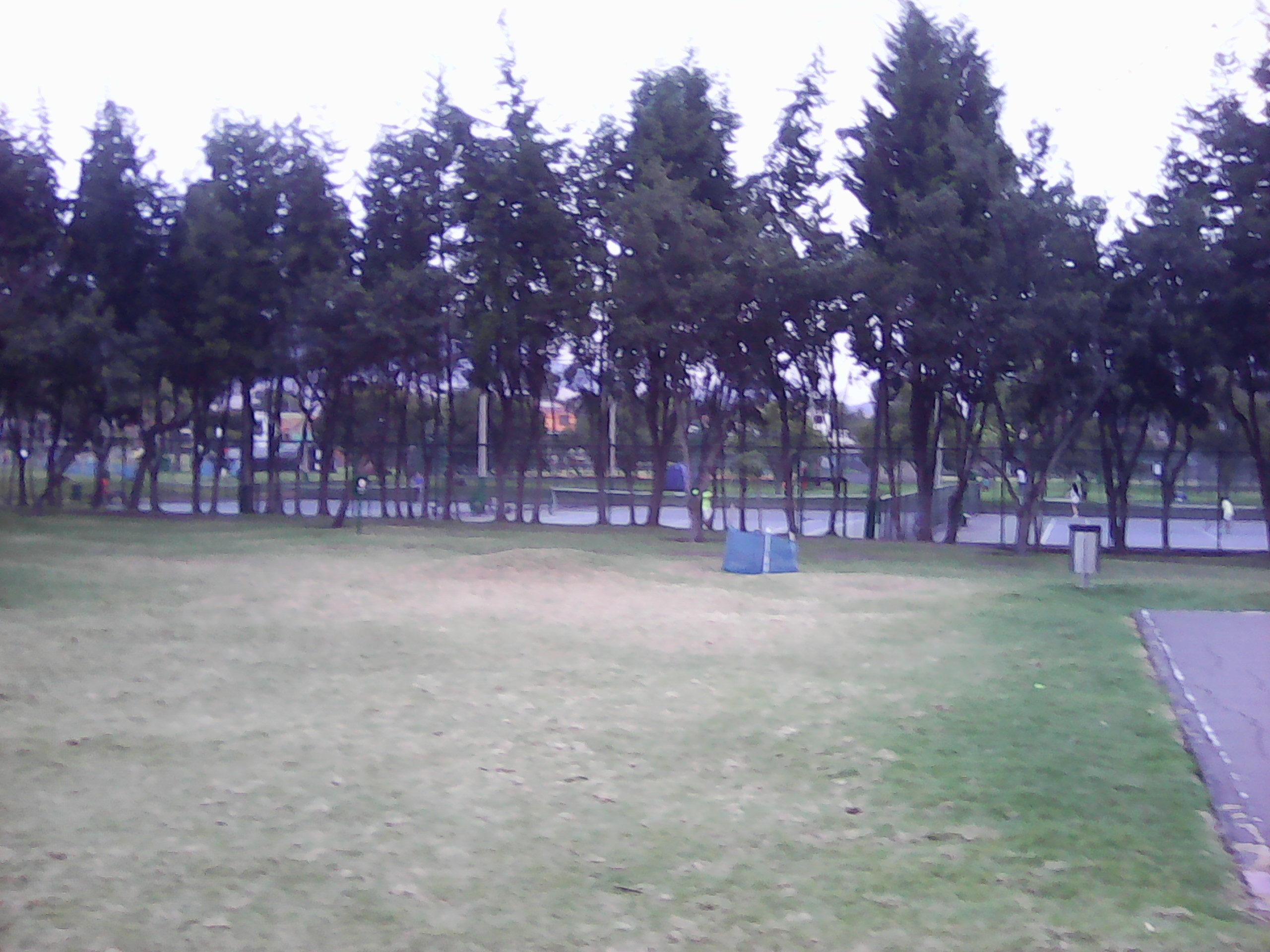 Ciudad MOntes Park